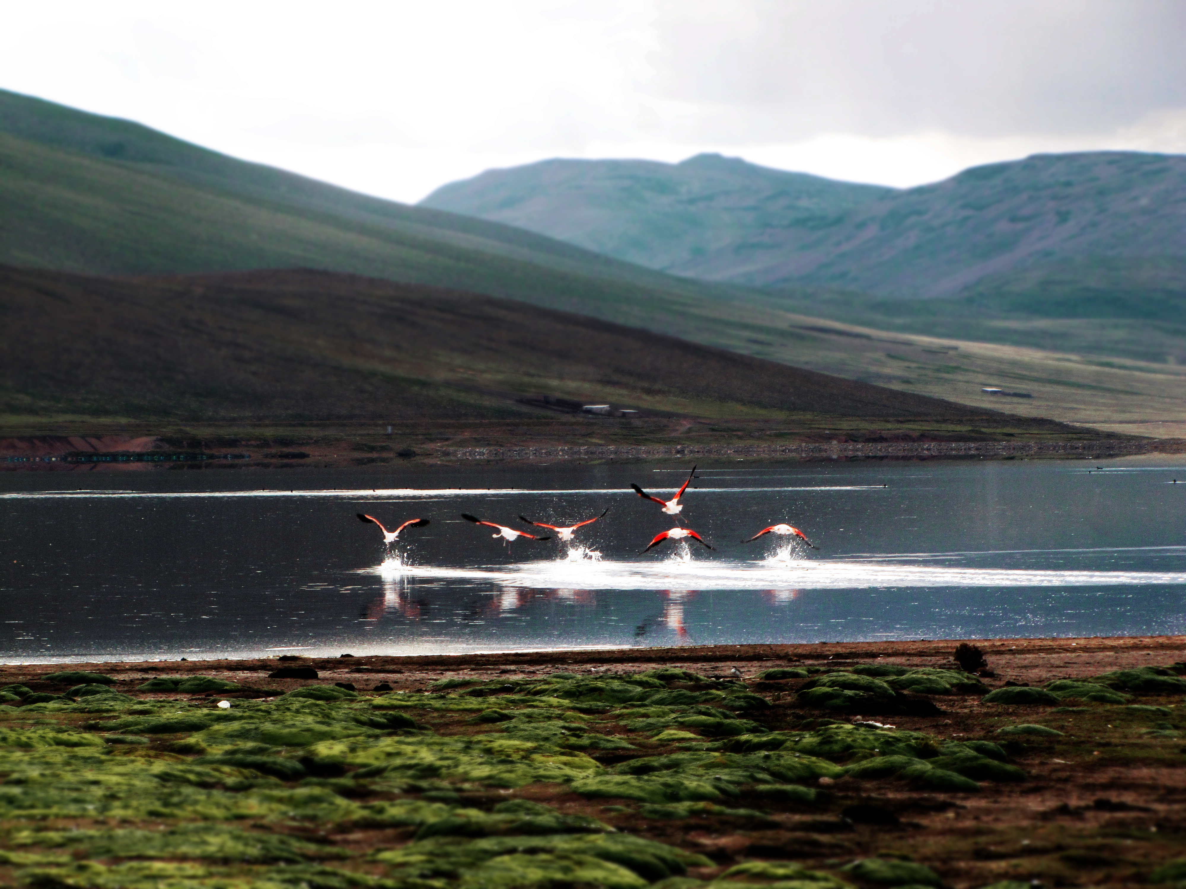 Parihuanas alzando el vuelo en la reserva nacional de Salinas y Aguada Blanca en Arequipa.